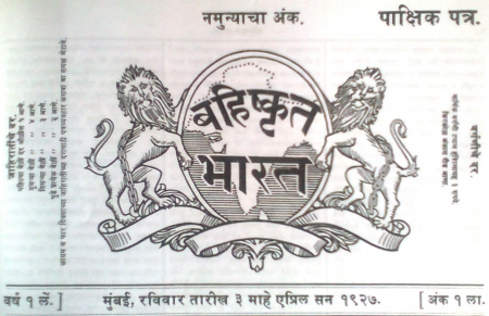 Inner page of Dr. Babasaheb Ambedkar's 'Bahishkrut Bharat' Fortnightly. Bahishkrut Bharat was first published on Sunday, 3 April 1927 from Mumbai. Its annual subscription fee was Rs. 3 and 1.5 Aana for each copy